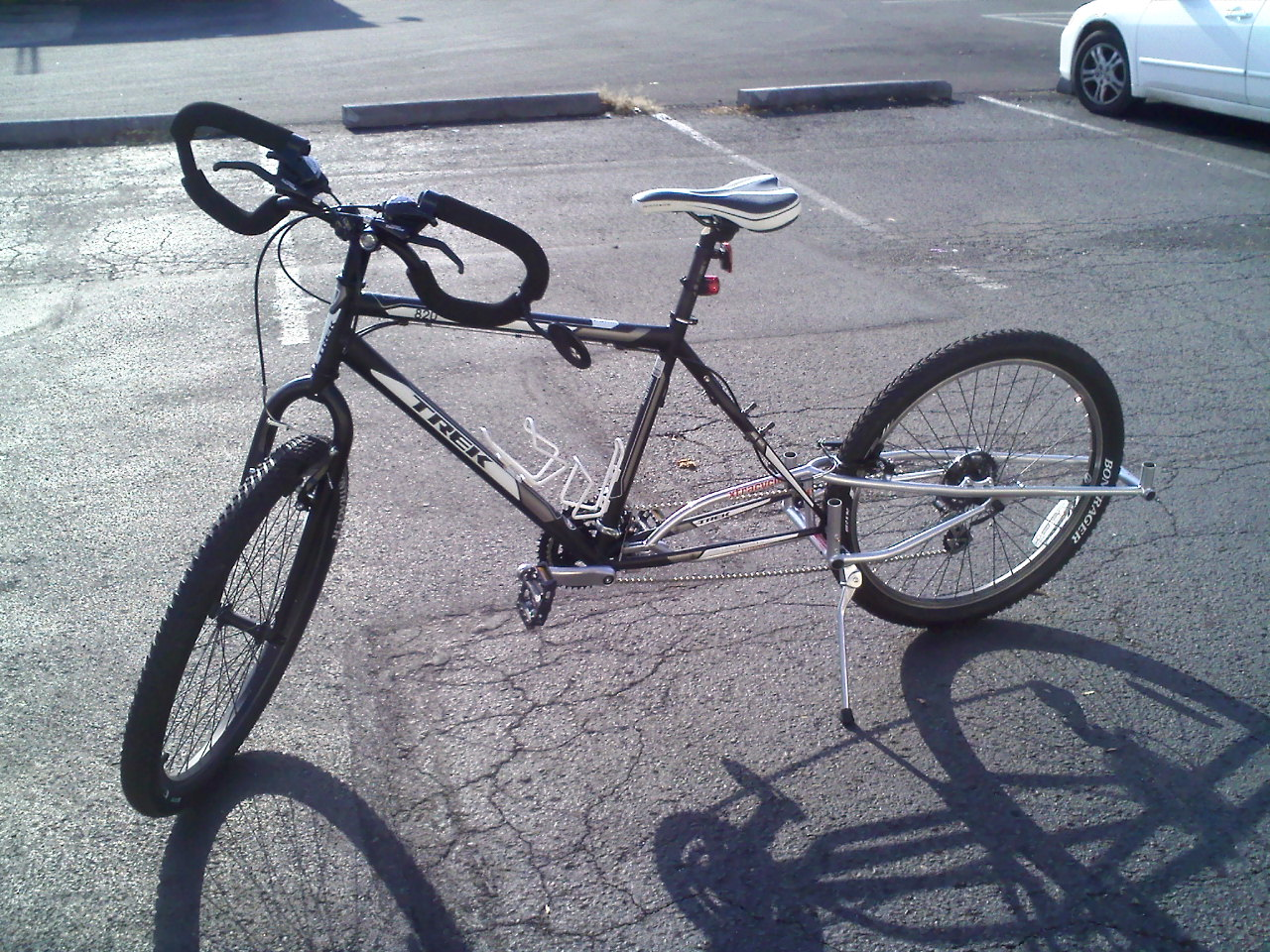 This is a picture of the basic Xtracycle Free Radical extender.